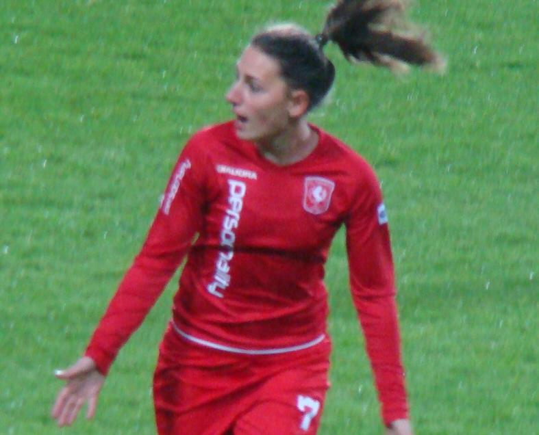 FC Twente player Suzanne de Kort